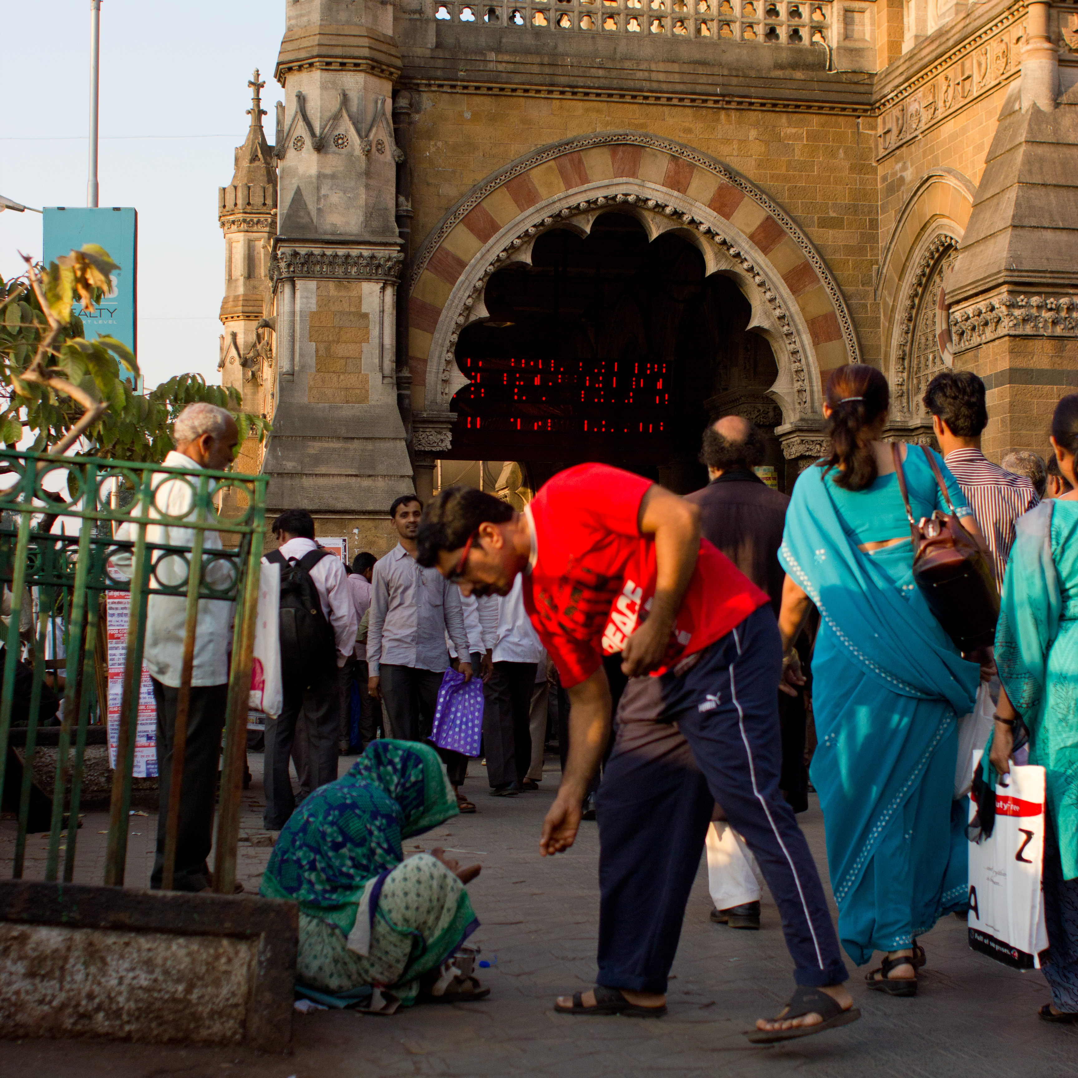 India Mumbai Victor Grigas a woman without fingers begging for change in Mumbai